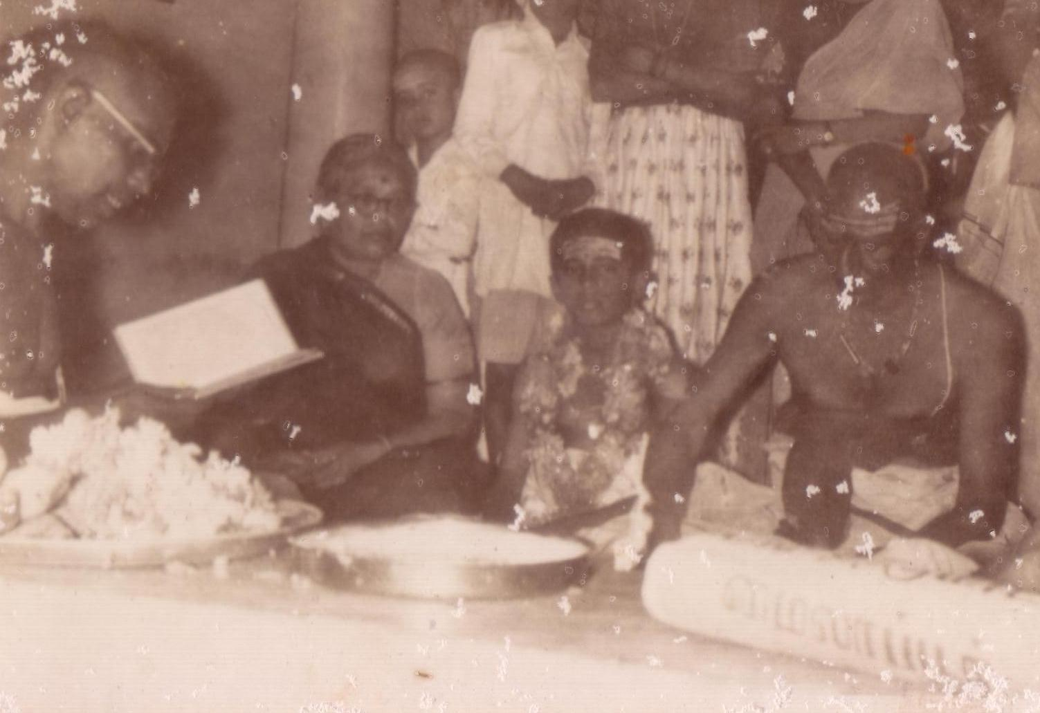 KSI and KSS